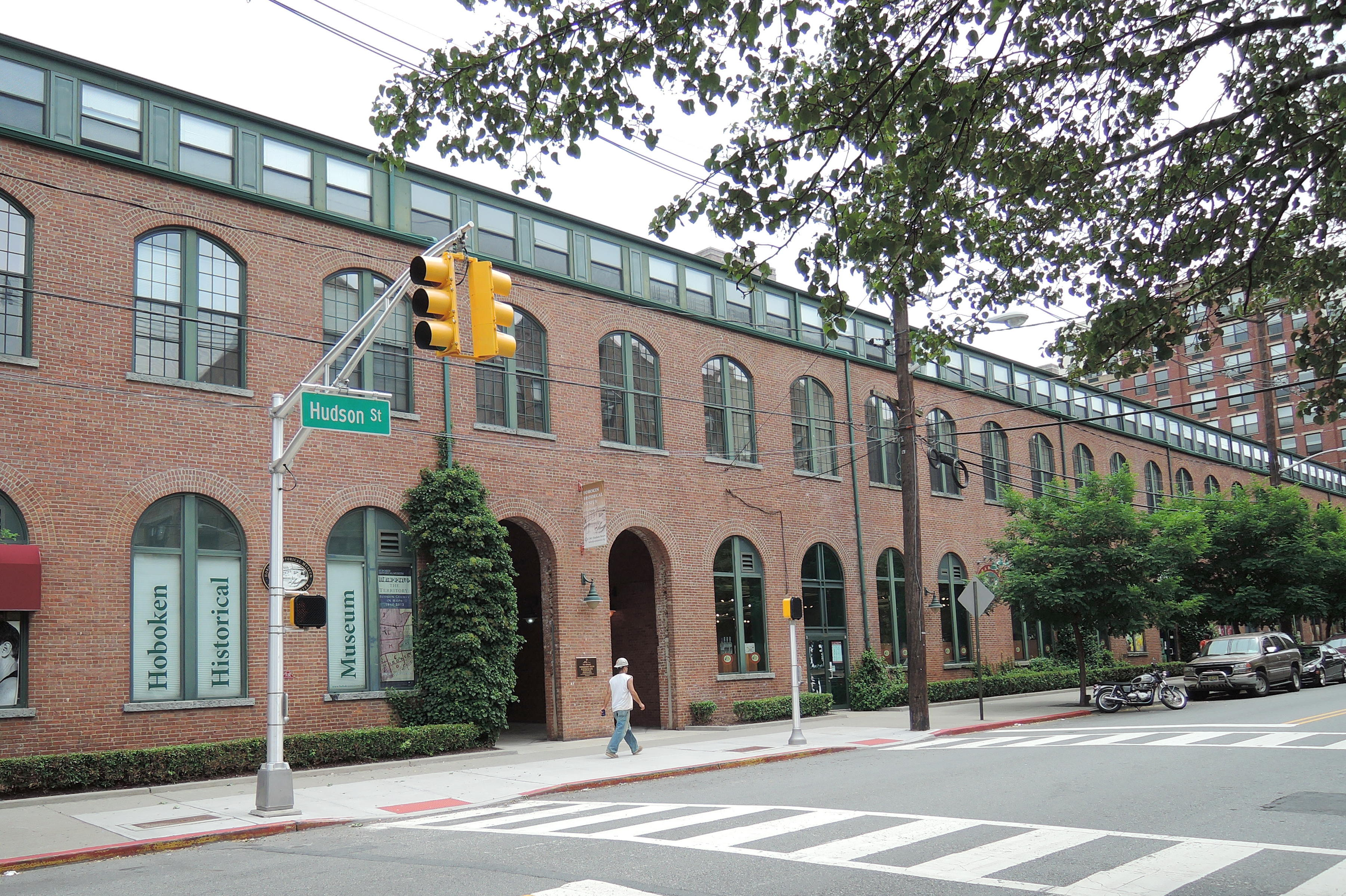 Looking south across Hudson Street.